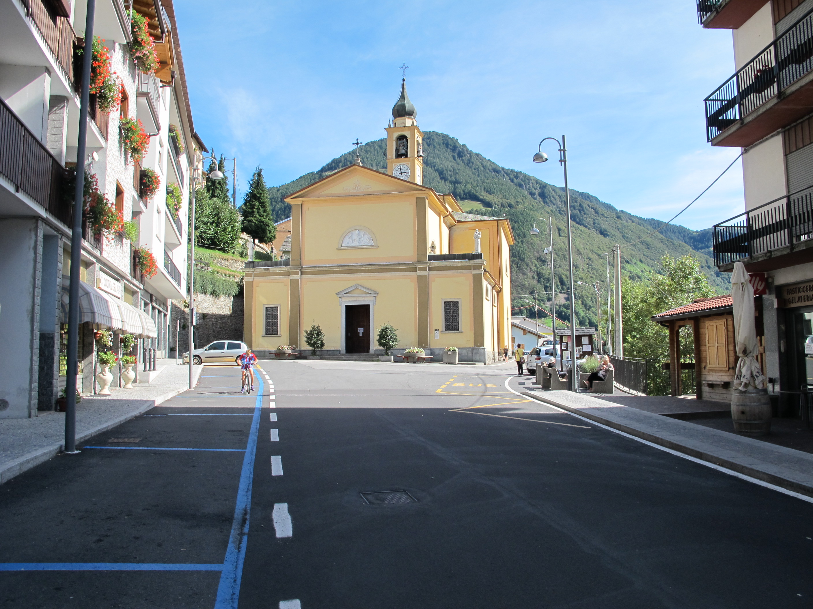 Italy, Lombardy, Premana, Chiesa (church) di San Dionigi